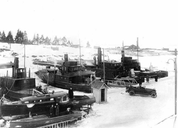 The Satakunta Fleet of the Imperial Russian Navy at the Mustalahti harbour, Tampere, Finland during winter 1917. The "fleet" operated on lake Näsijärvi.